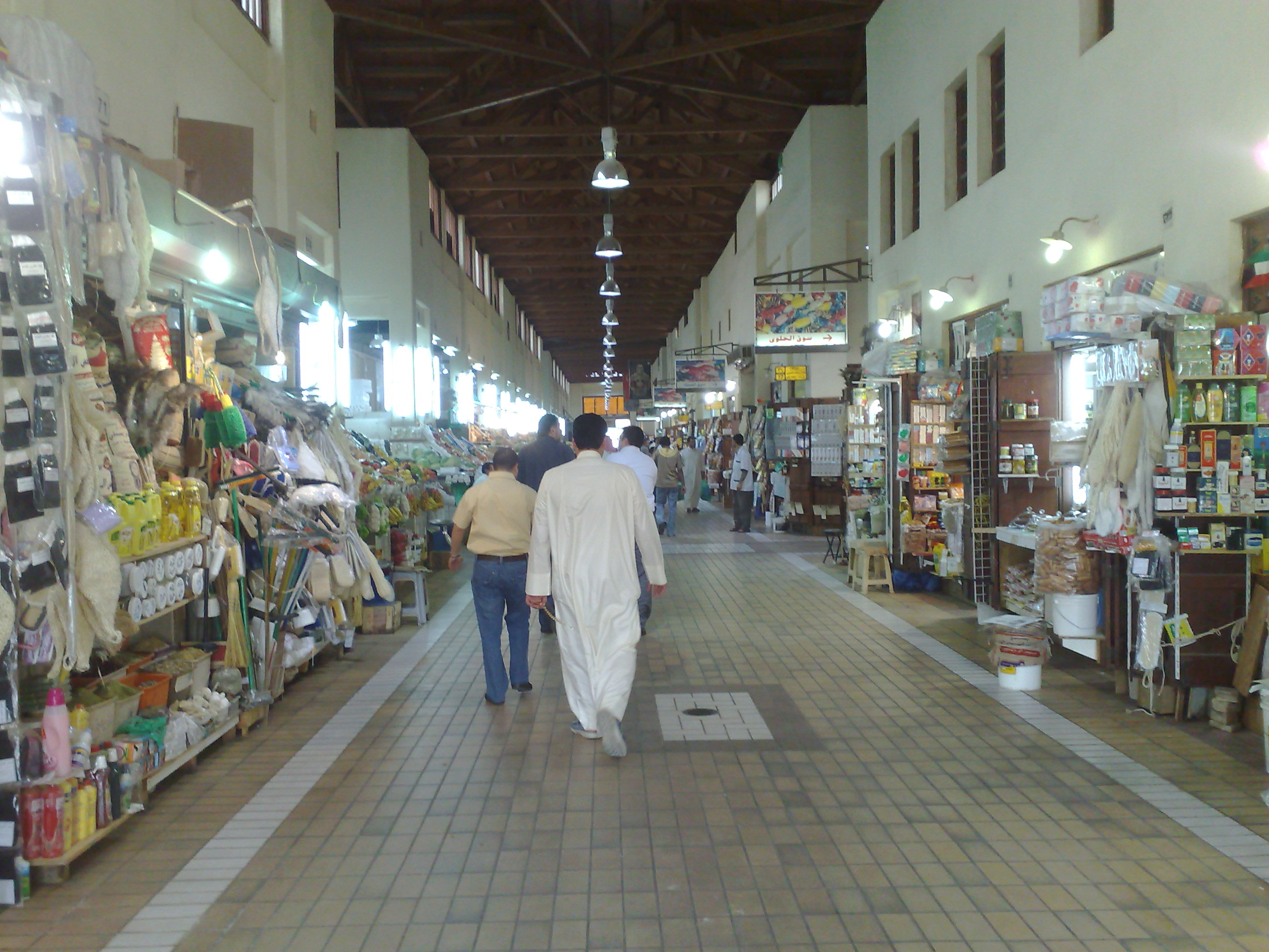 Al-mubarakeya market in Kuwait city. one of the oldest markets in Kuwait city.